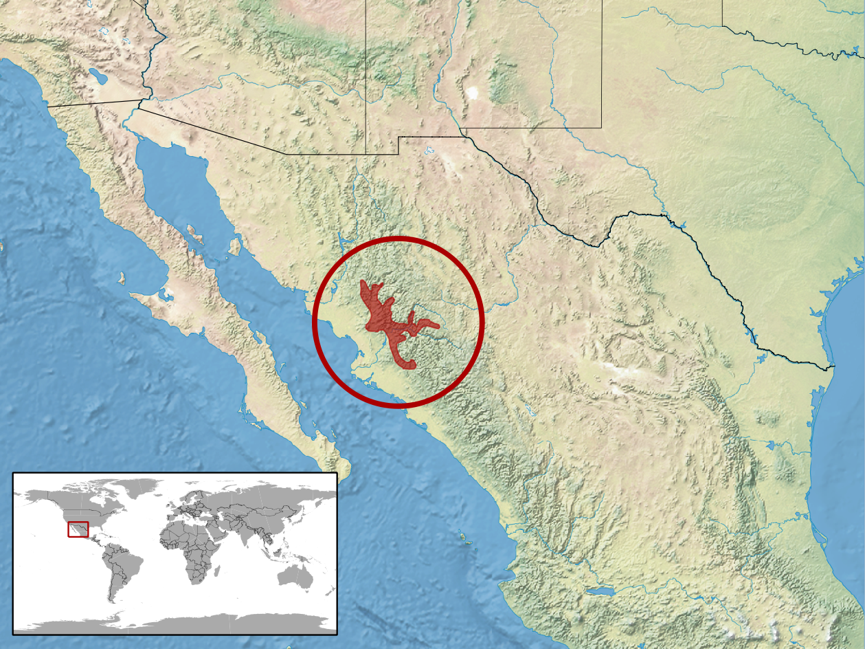 geographic distribution of Plestiodon parviauriculatus